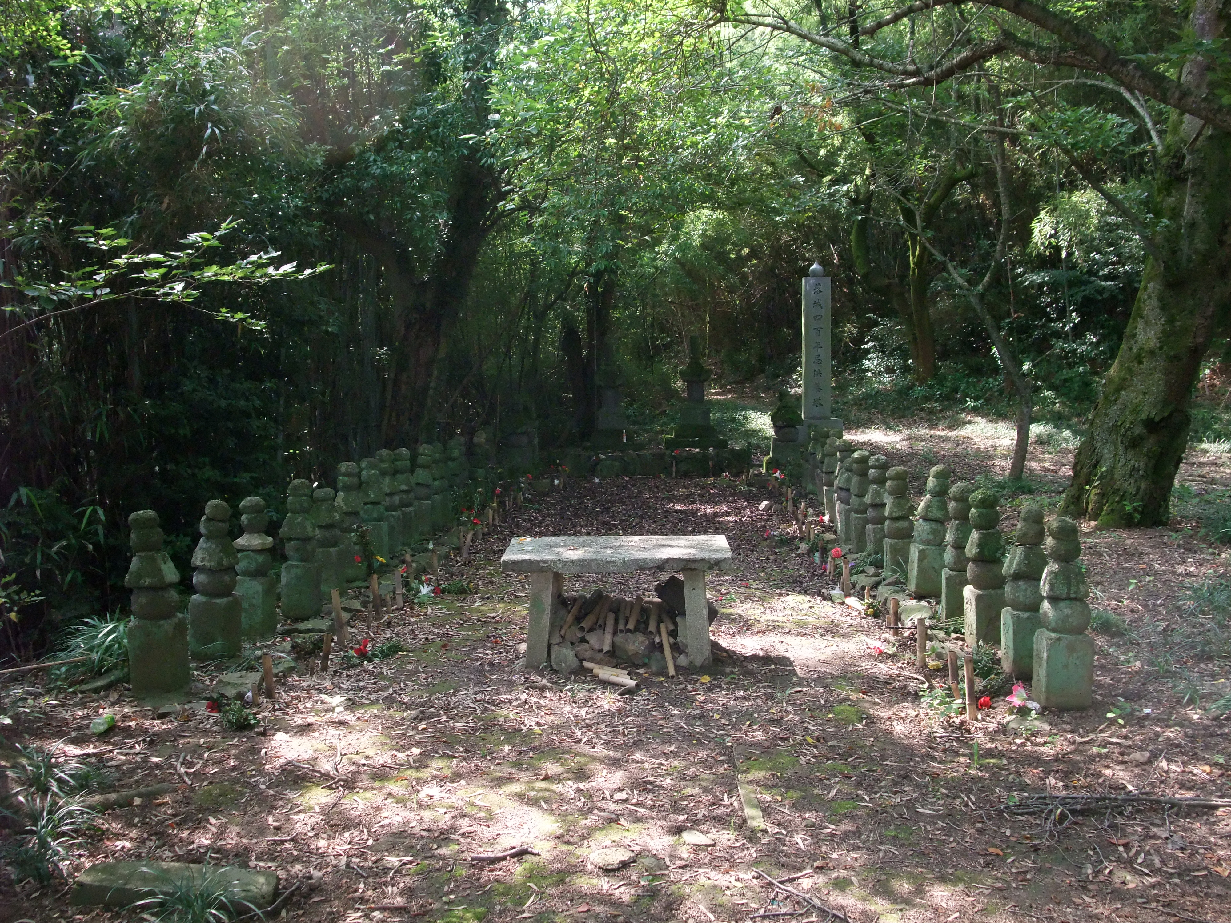 Graves of the women force, Tsuneyama-jō